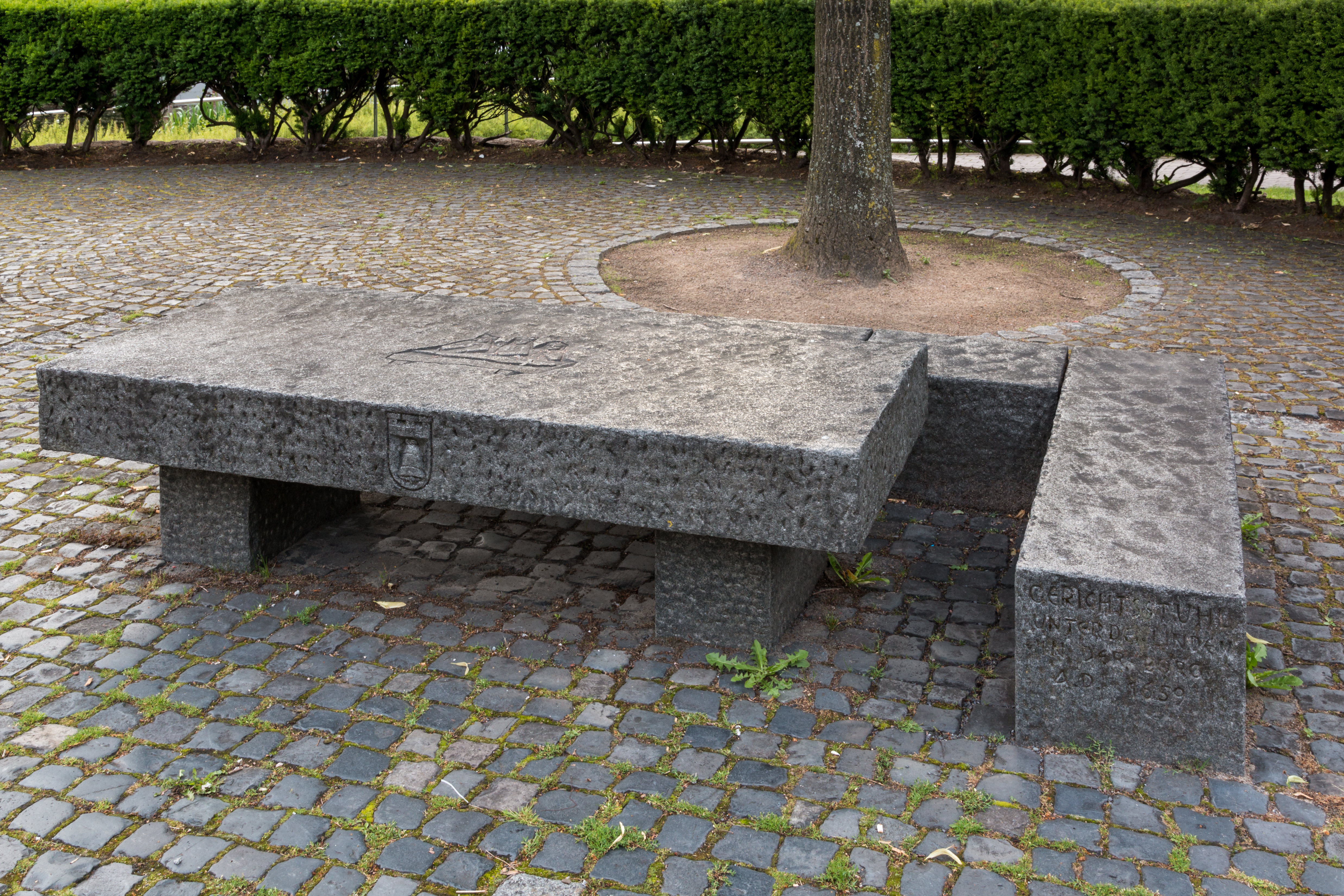 Femegerichtsstuhl, Lüdinghausen, North Rhine-Westphalia, Germany Sculpture TitleFemegerichtsstuhlArtistUnknown artistDateUnknown dateUnknown date